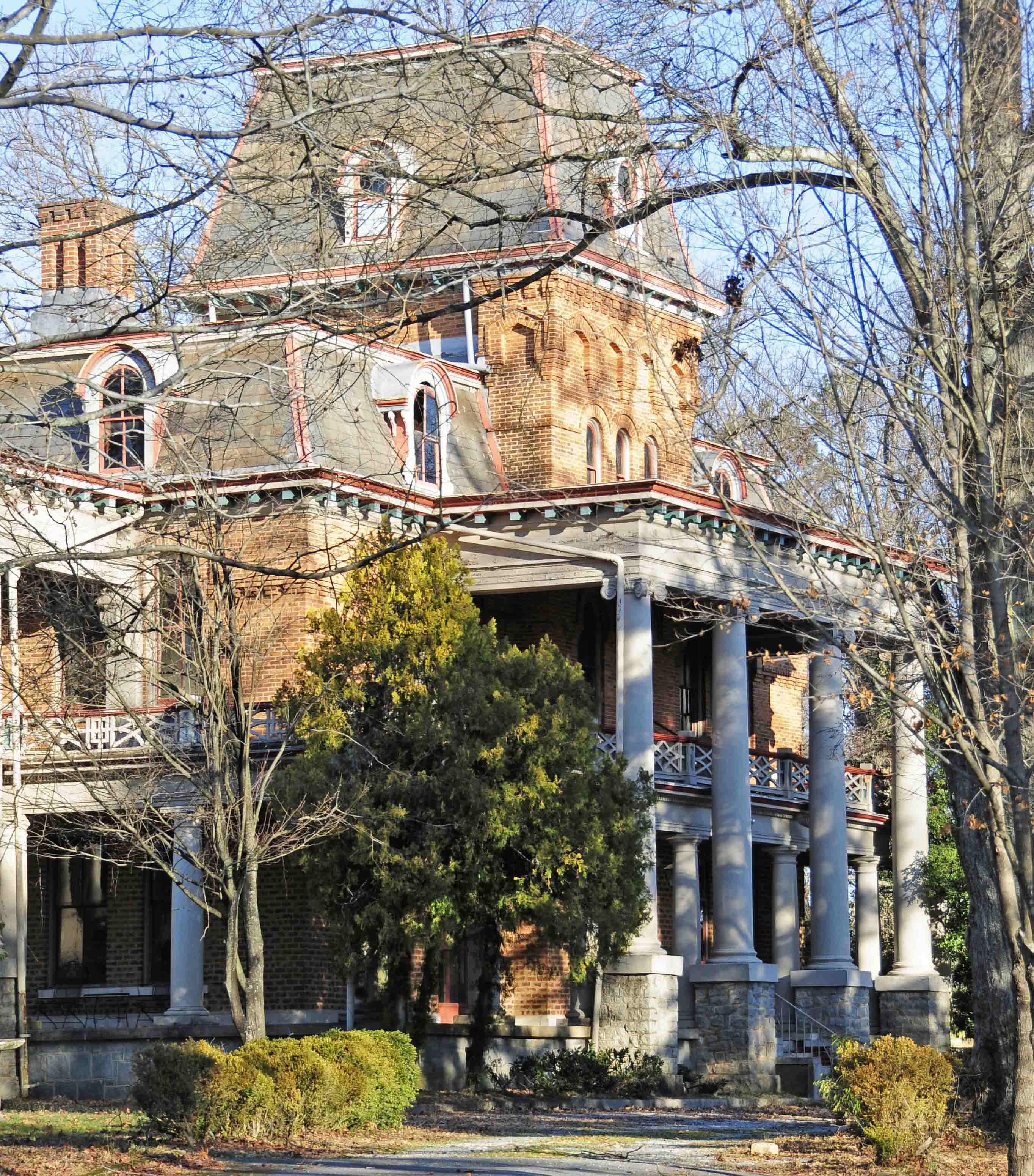 Bon Haven